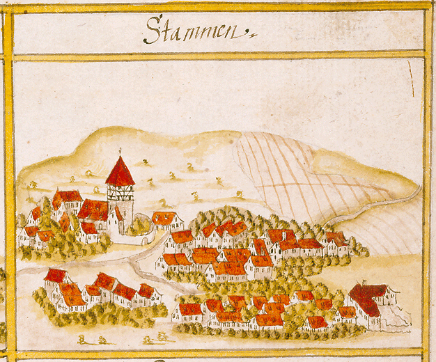 View of Stammheim, Calw, from the forest register books created by Andreas Kieser